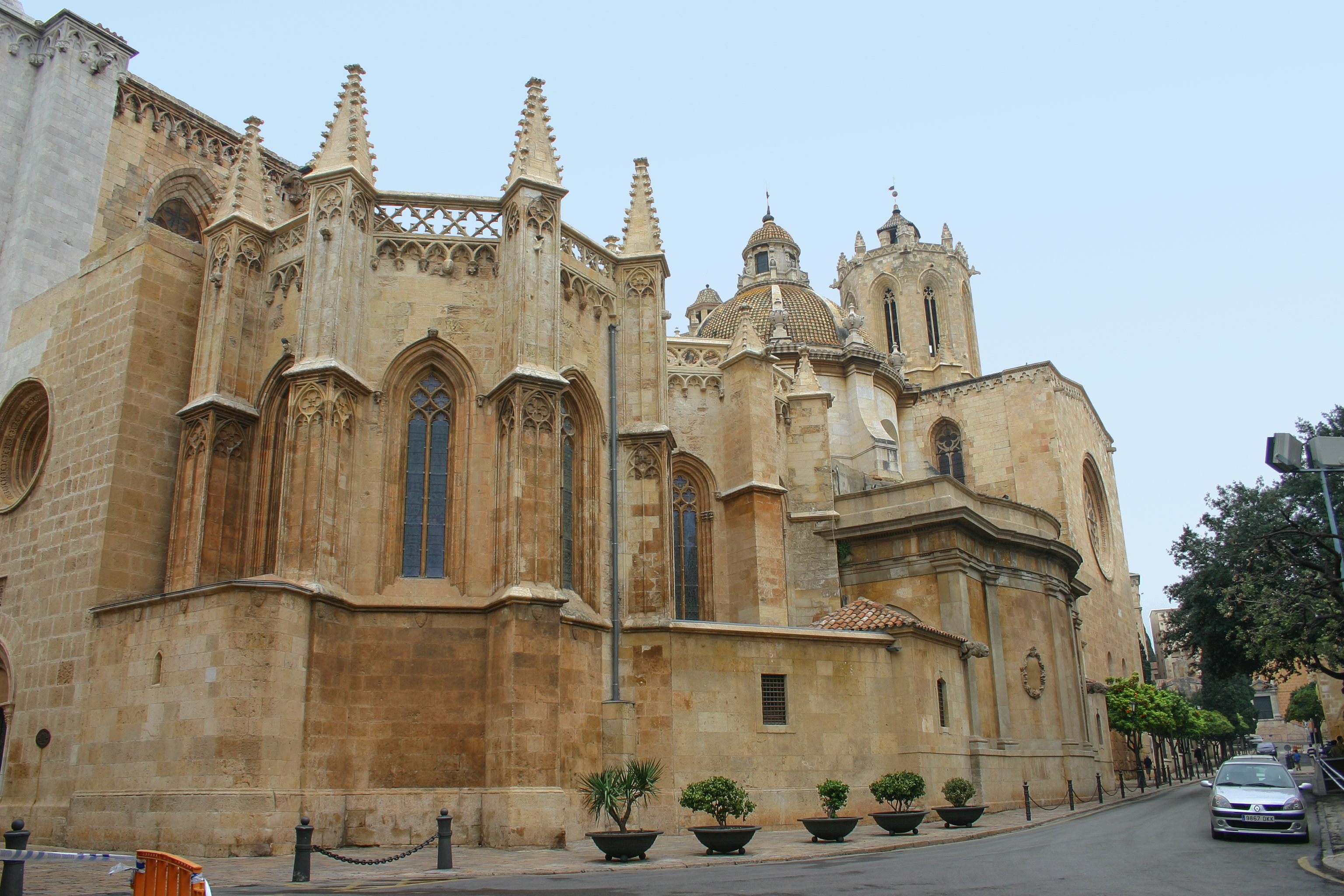 Cathedral of Tarragona, Catalonia (Spain).